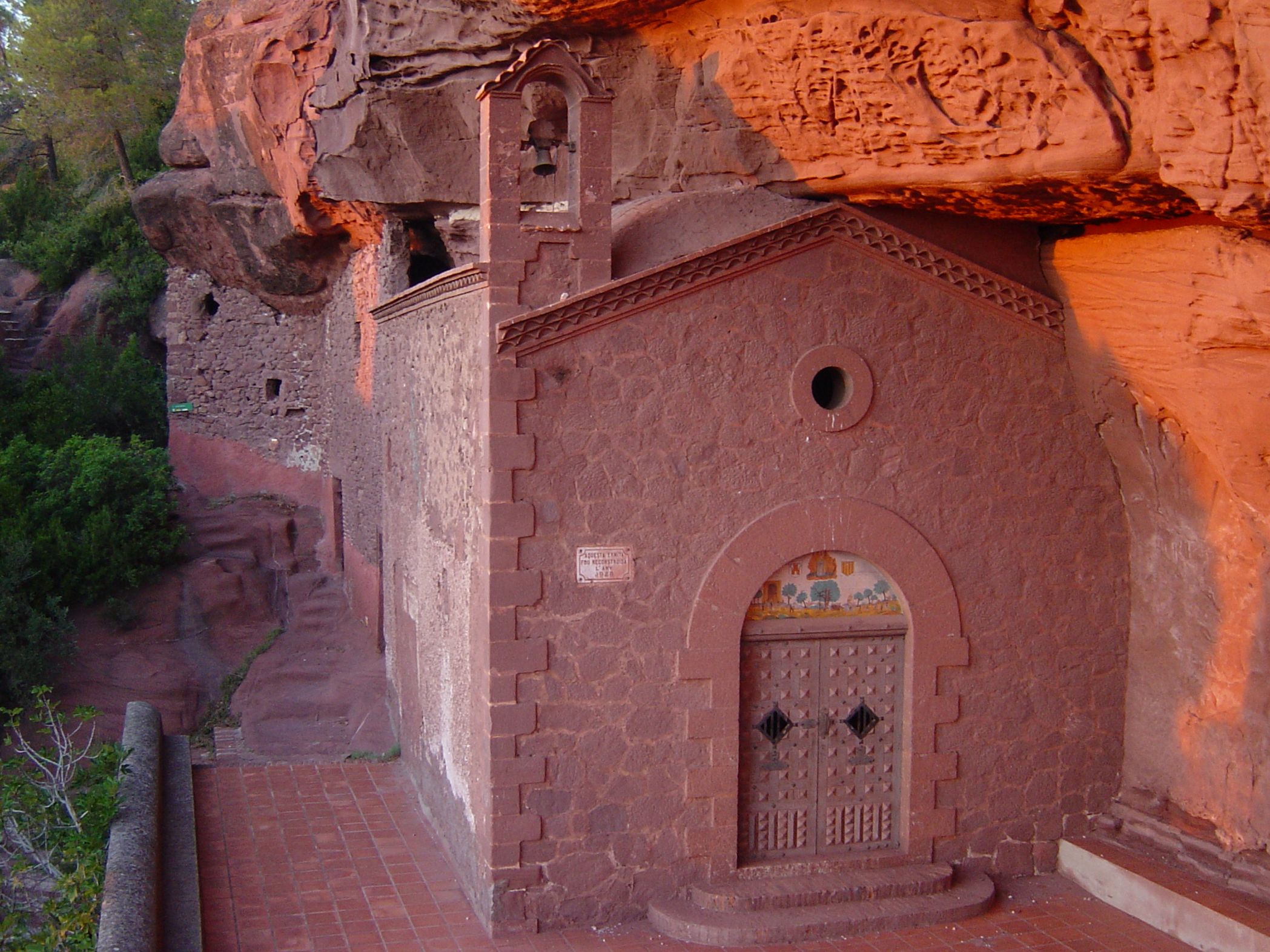 Hermitage of Sant Gregori, Falset